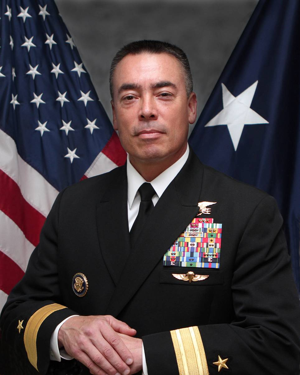 Official portrait of Rear Admiral (lower half) Brian L. Losey, USNCommander, Special Operations Command Africa